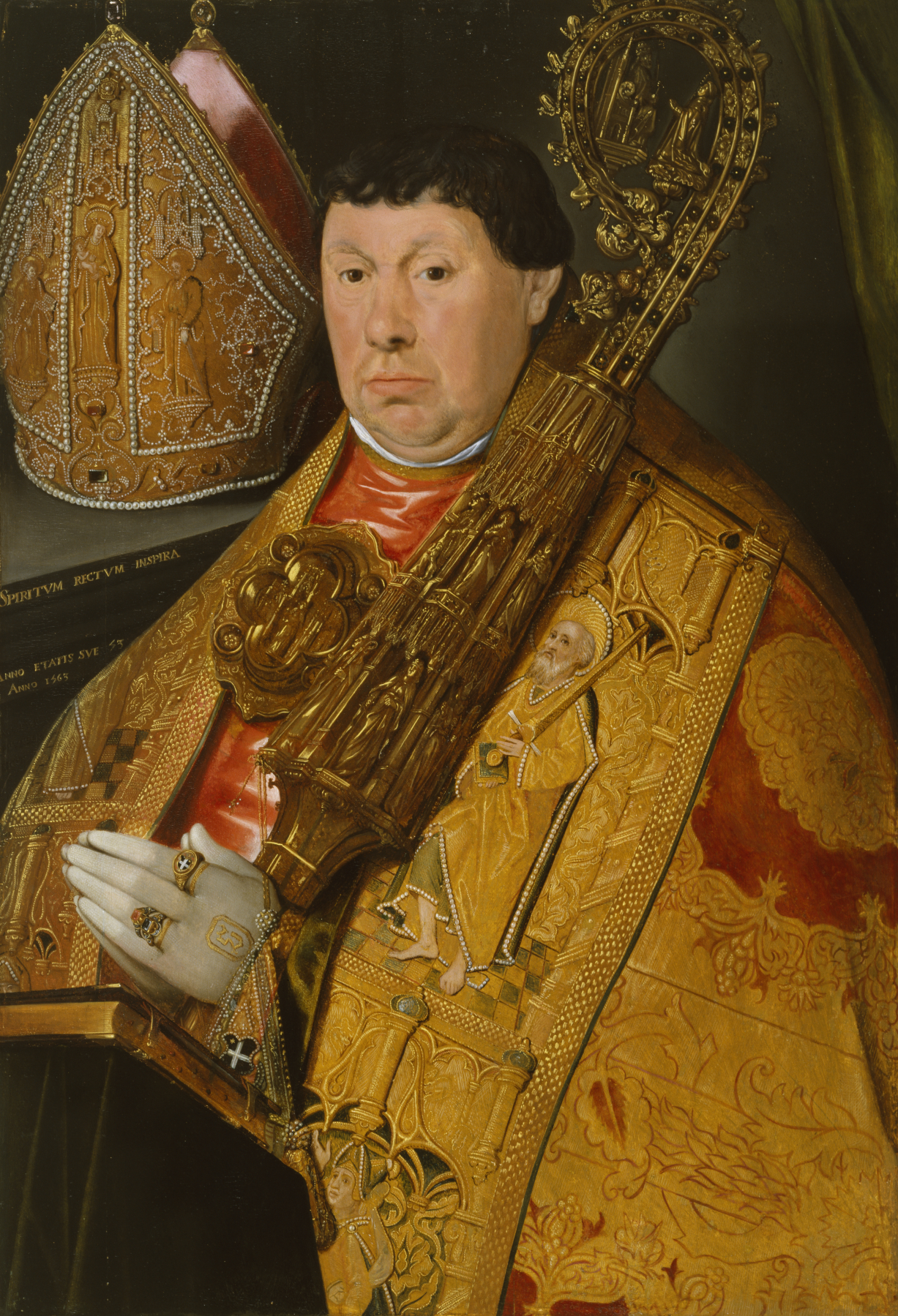 In 1543, Nicholas à Spira (1510-1568) was elected abbot of the abbey of the Norbertine Order at Grimbergen in the southern Netherlands. In 1566, the abbey, like many Catholic churches and institutions in the Netherlands, was set on fire by bands of Protestant reformers bent on purging the land of idolatrous images. However, the altarpiece survived until the anticlerical campaigns of the 1790s that swept through much of western Europe with the reverberations of the French Revolution. The altarpiece was apparently dismantled then, probably in order to separate the portraits from the central panel, which was very likely destroyed.